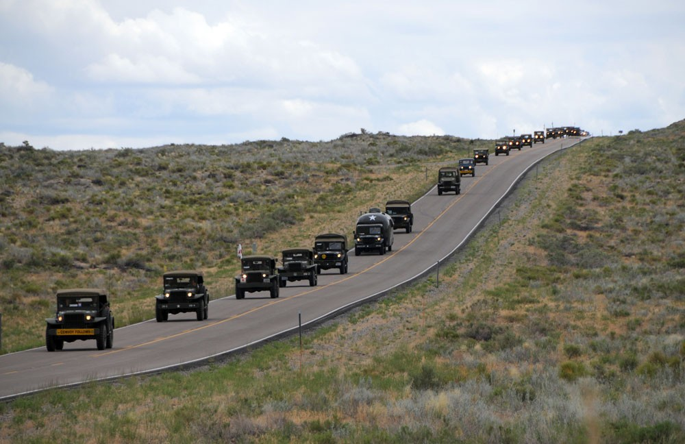 The Military Vehicle Preservation Association 2009 Transcontinental Motor Convoy makes its way to the Lincoln Highway Bridge July 2, 2009. The MVPA 2009 TMC, which is traveling from Washington, D.C. to San Francisco, California to retrace the original 1919 route along the Lincoln Highway, stopped on Dugway Proving Ground, Utah, during its trek.